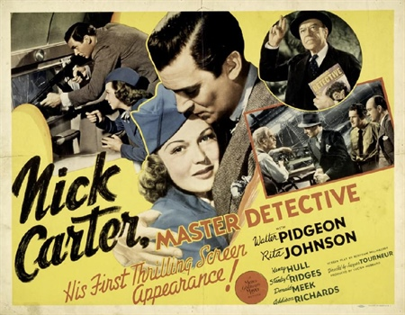 Half sheet poster of film Nick Carter, Master Detective (1940)